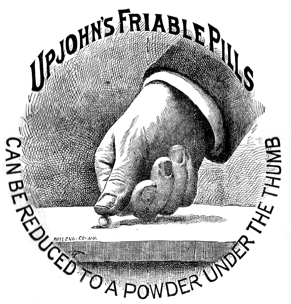 Logo of Upjohn Pill & Granule, later The Upjohn Company, published December 31, 1896 in Pharmaceutical Era magazine, page 935